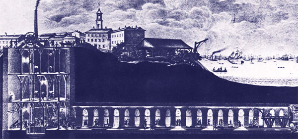 Depiction of the Thames Tunnel